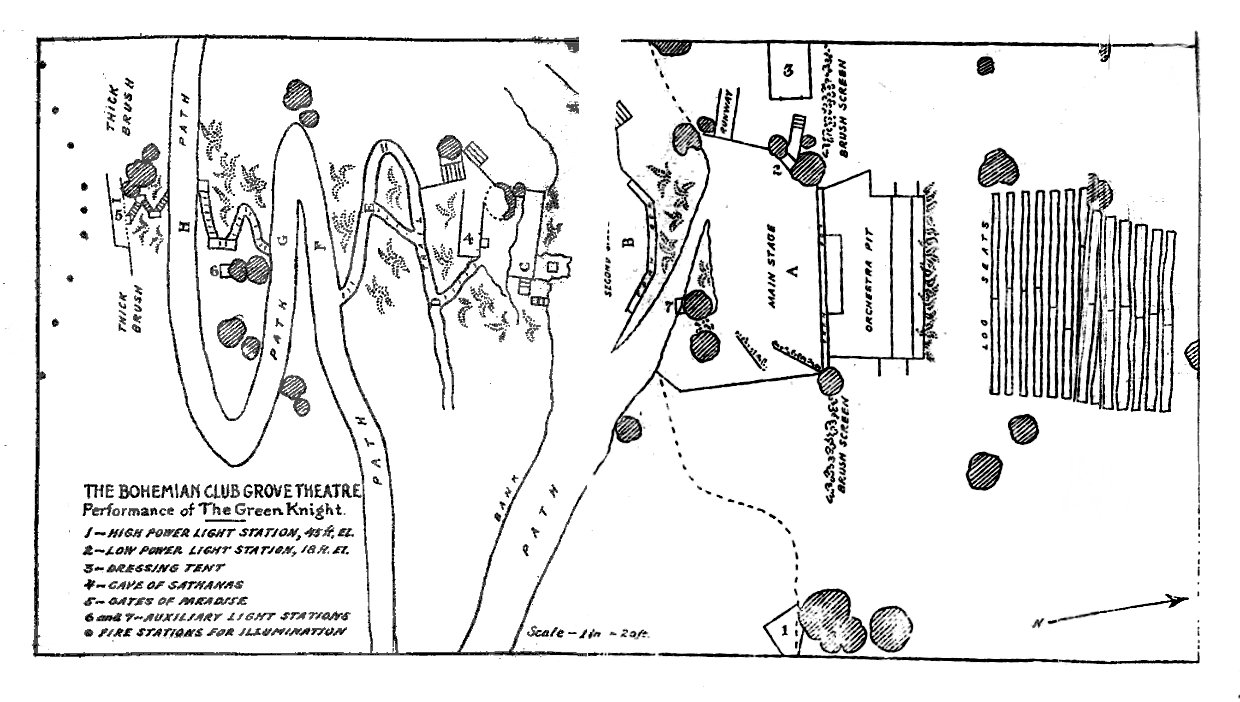 Porter Garnett's sketch of the Bohemian Club's Main Stage at the Bohemian Grove, 1911